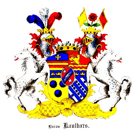 Coat of arms of the Baron of Kaulbars family.